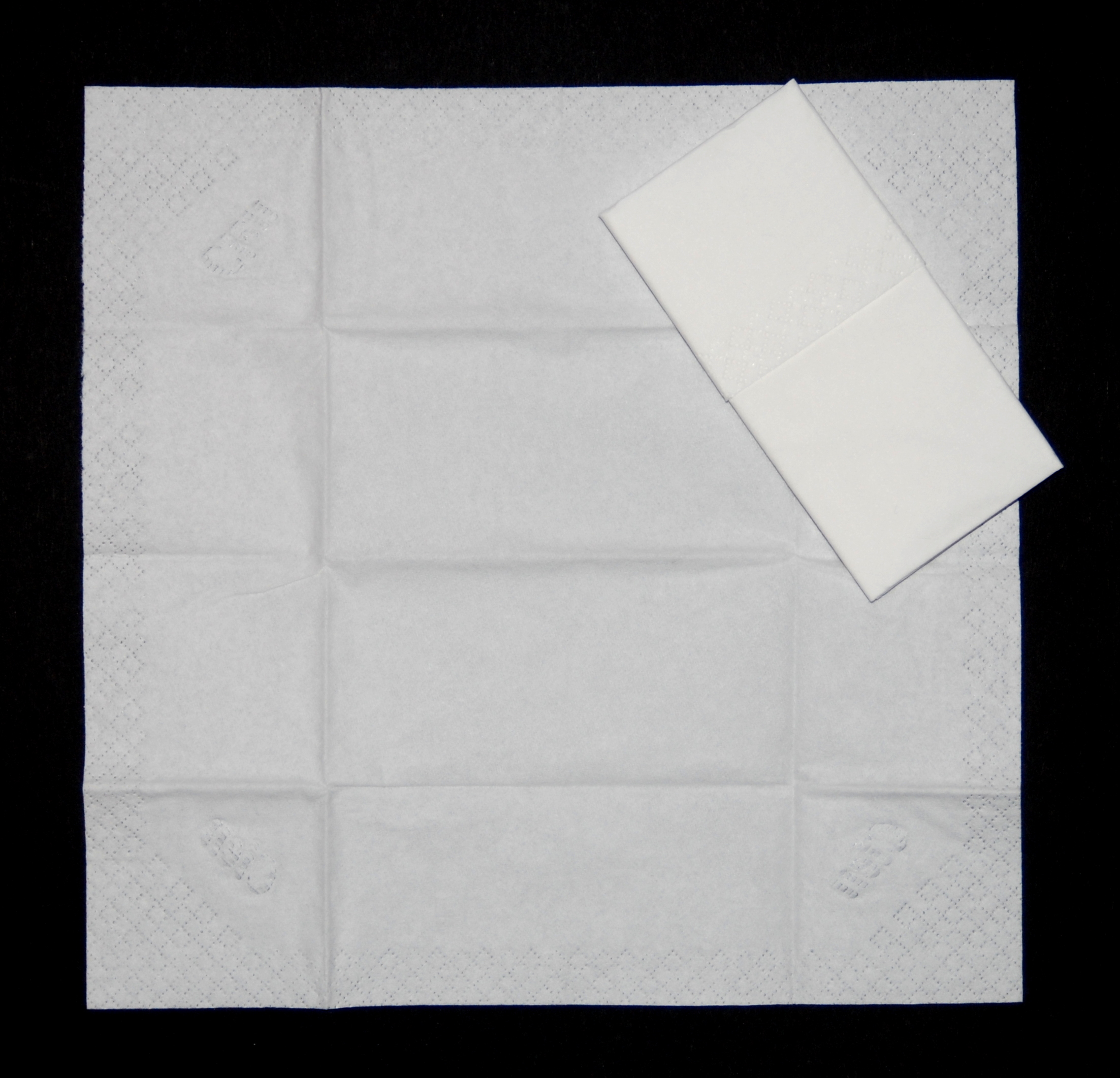 handkerchief